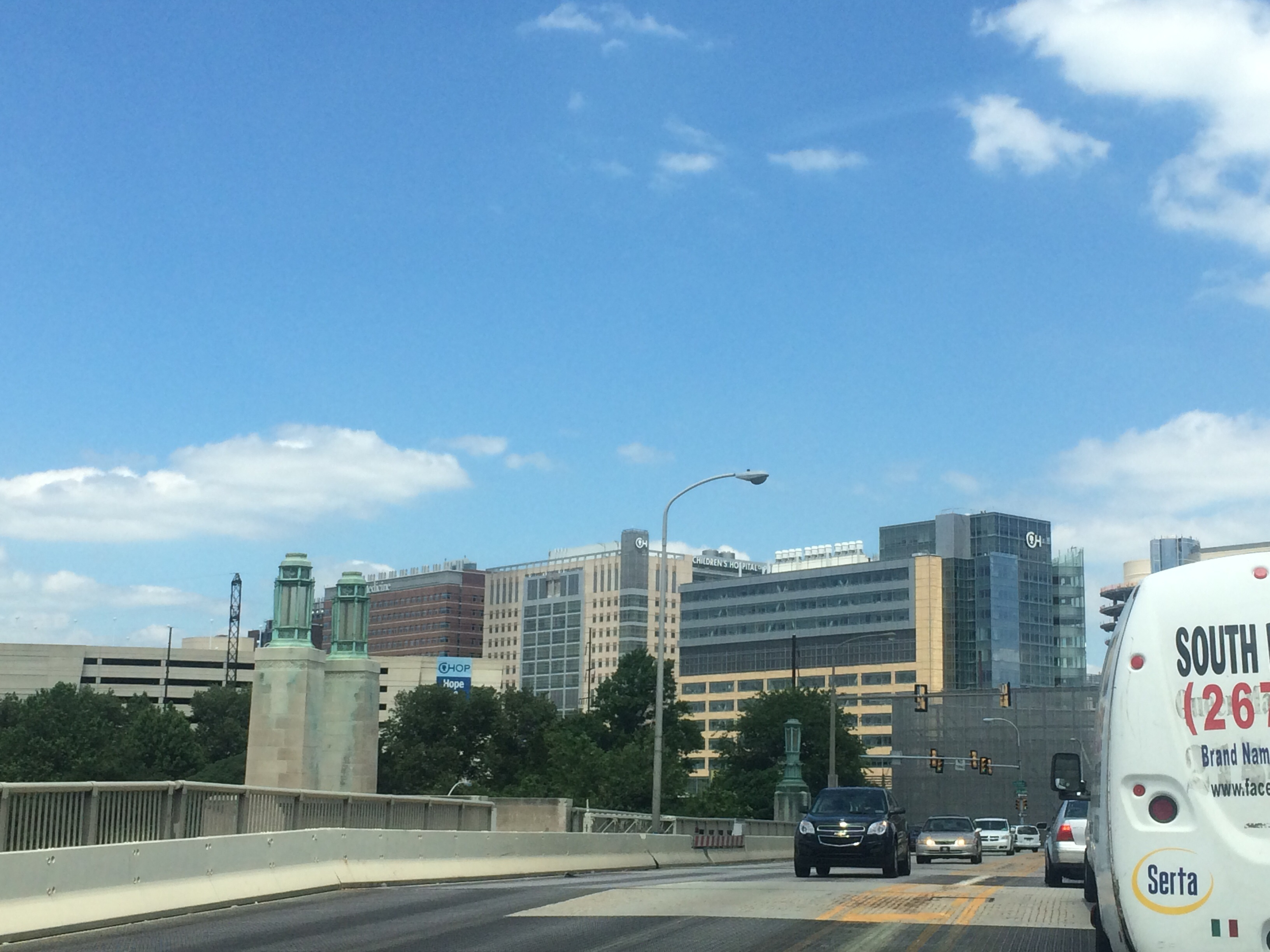 University city from my iphone 5s